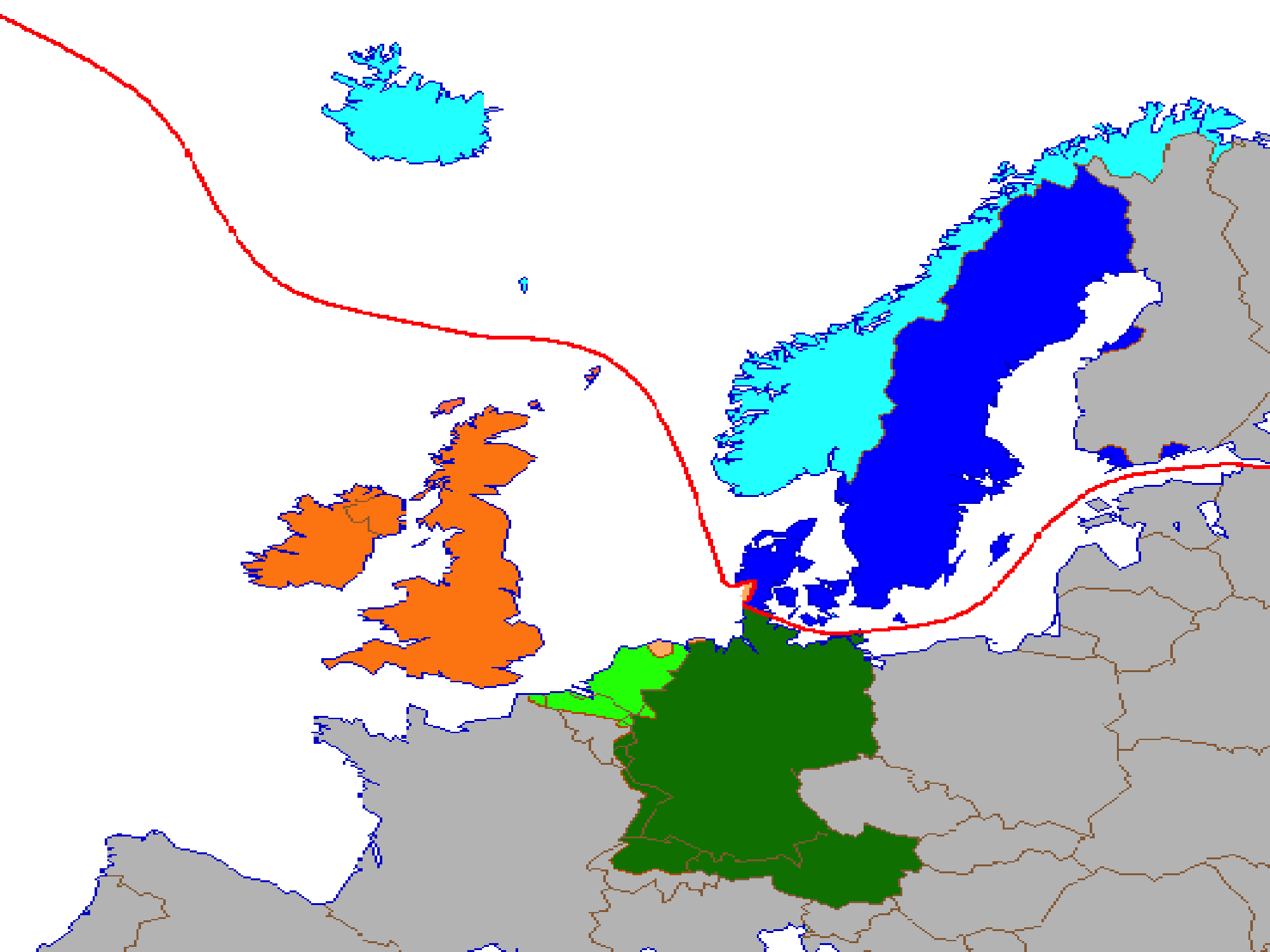 About Germanic languages in Europe Low Saxon-Low Franconian languages (West Germanic) High German languages (West Germanic) Insular Anglo-Frisian languages (West Germanic) Continental Anglo-Frisian languages (West Germanic) East North Germanic languages West North Germanic languages Line diving the North and West Germanic languages Note: The colours in this map represent the linguistic majority(!) in a region. For example: In Northern Germany, Low Saxon dialects (or standard German dialects influenced by Low Saxon that previously were spoken there) are spoken, yet the majority of the people there speak standard German, a high German language, so the area is coloured as being dominantly High German.